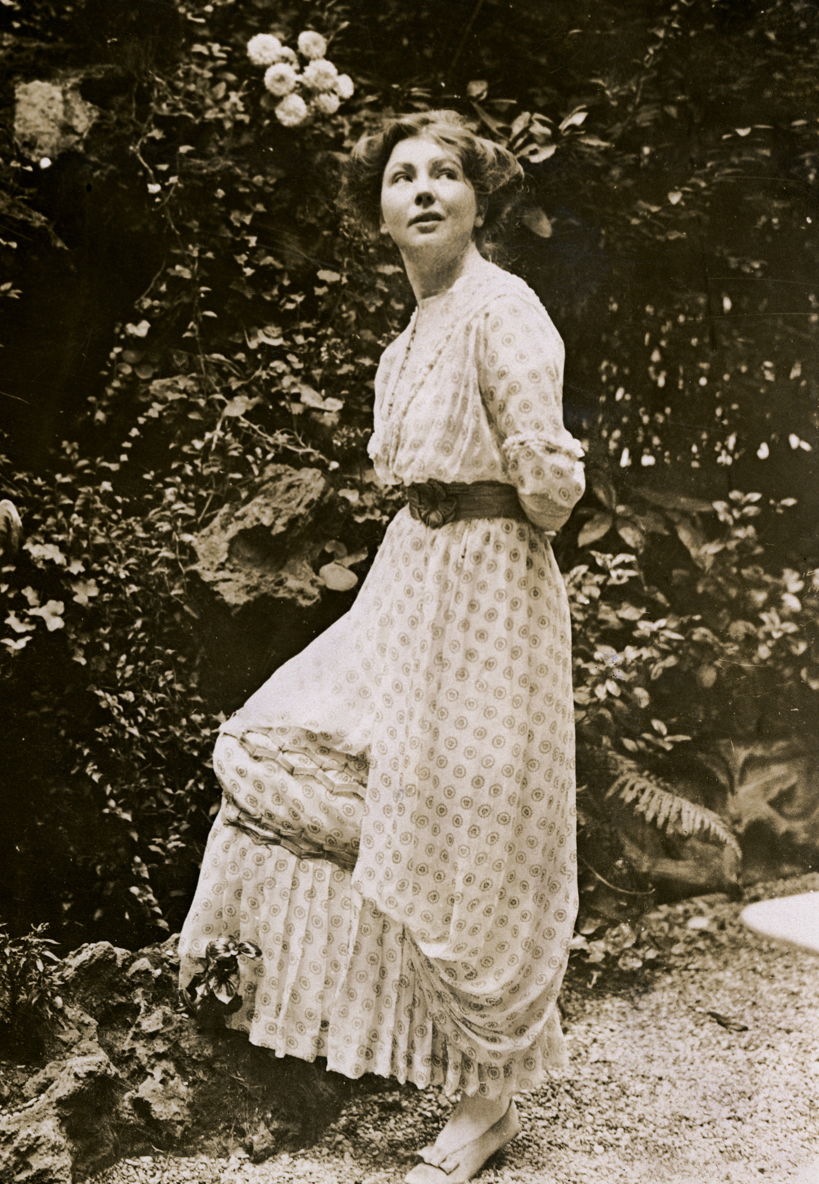 7JCC/O/02/115b Photograph, printed, paper, monochrome, Christabel Pankhurst standing in a garden wearing a belted white dress printed with a motif of circles, full length, front profile, mounted on card; autograph inscription pasted below image 'Christabel Pankhurst', manuscript inscription on reverse 'Grace Roe, Green Cottage, Pembury, Tunbridge Wells, Kent. 1913. Paris'